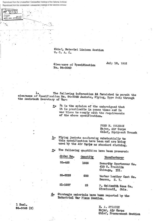 Official paperwork dated July 19, 1932 showing the first three (3) A-2 flying jacket contracts, all using button pocket closure and made of horsehide leather with cotton lining.